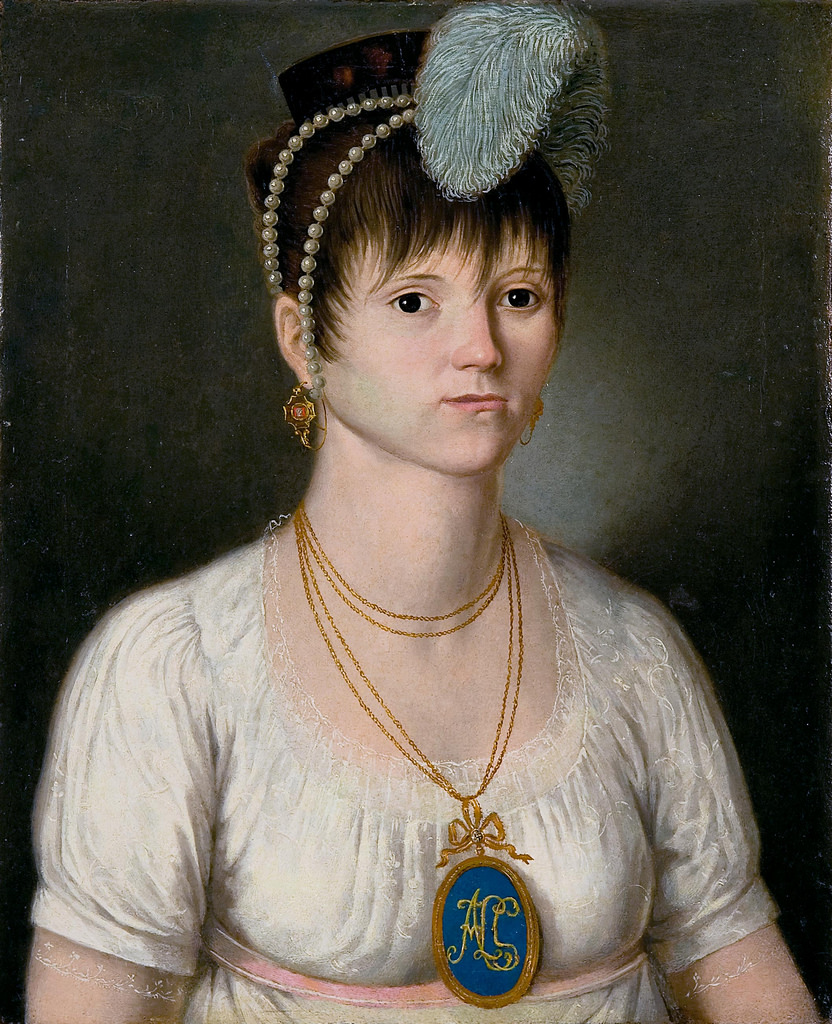 Infanta María Amalia of Spain (1779-1798), daughter of King Carlos IV of Spain